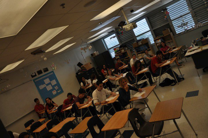 Miami Beach Senior High classroom